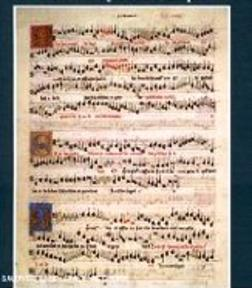 Page of the Fayrfax Book